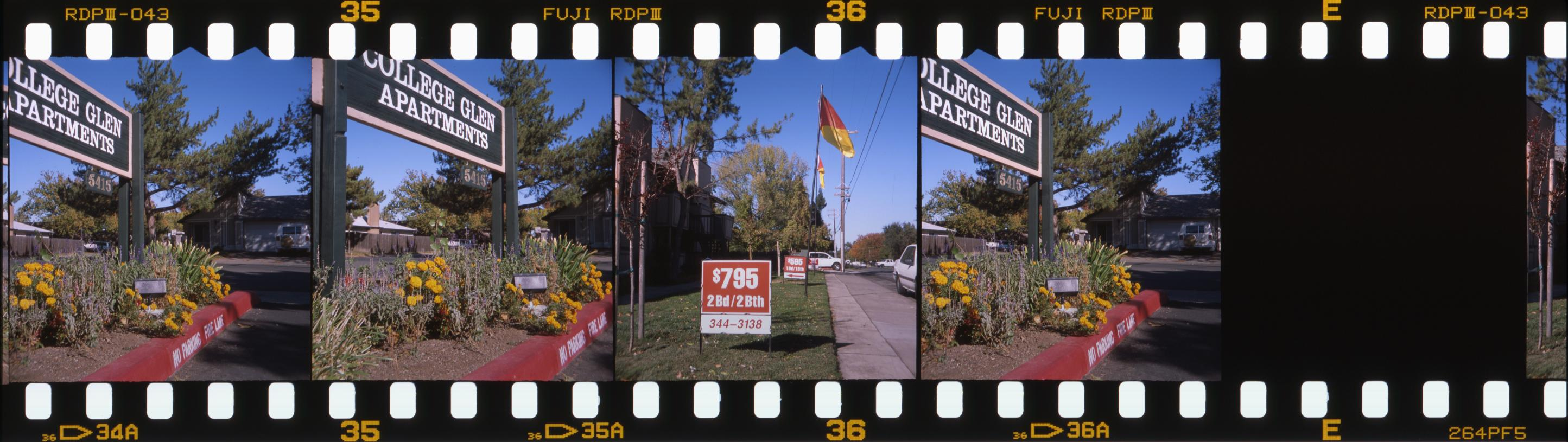 Image strip from a Kodak Stereo camera, taken with old Fuji Provia 100F film, processed as uncut E6 through Walmart, and scanned on flatbed scanner using transparency adaptor. Note that there are 5 Perfs (P) for each image, with two unrelated images between the right and left image of each pair, with the position of right and left being reversed. Thus, image 34A is the right eye image with 36A being the left eye image of the same pair. Note that on the Kodak Stereo camera the left eye image has a notch between P1 and P2 above the left eye image and notches between P3 and P4 and also between P4 and P5 above the right eye image. The last set of 4 images includes a blank frame as does the first set of 4. Image 36 is the left eye image of the final pair with the image to the right of the blank image E being the left eye image of the same pair. This image is complete but is only partially shown due to the limits of the scanner. You will also note the irregular spacing between frames, a problem which seems to be universal with Realist format cameras. Though it isn't seen here, this sometimes leads to slight overlapping of adjacent images.